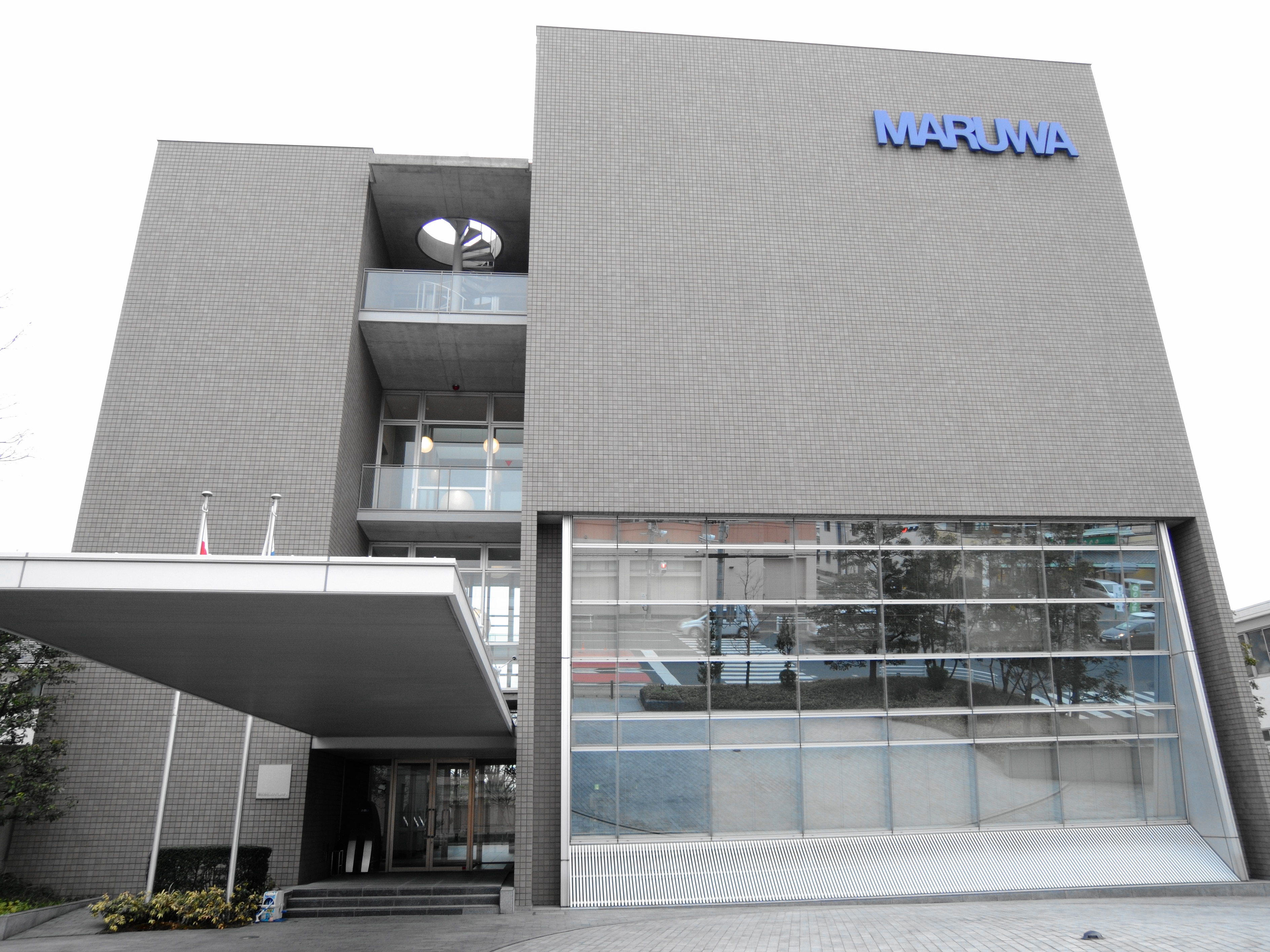 Headquarters of MARUWA CO., LTD,Aichi prefecture,Japan